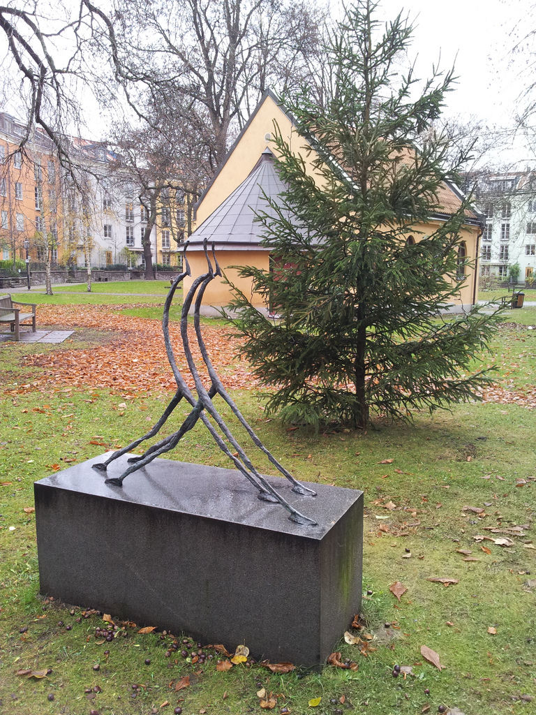 Människor ("Humans") by Anna Mizak in Grubbensparken on the isle of Kungsholmen, Stockholm, Sweden. In the background is Saint Erik's chapel.